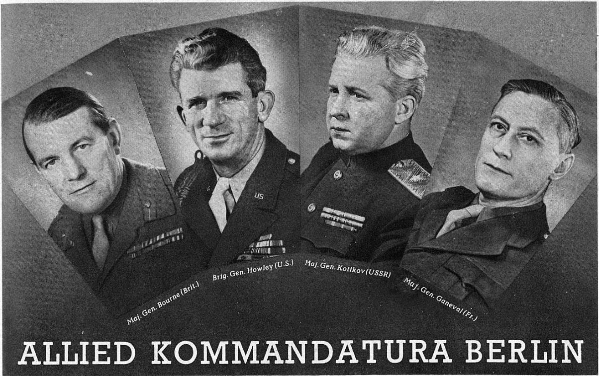 The four Allied Commandants of Berlin 1949 Maj. General Bourne (UK) Brig. Gen. Howley (U.S.) Maj. Kotokov (USSR) Maj. Gen. Ganeval (Fr.)